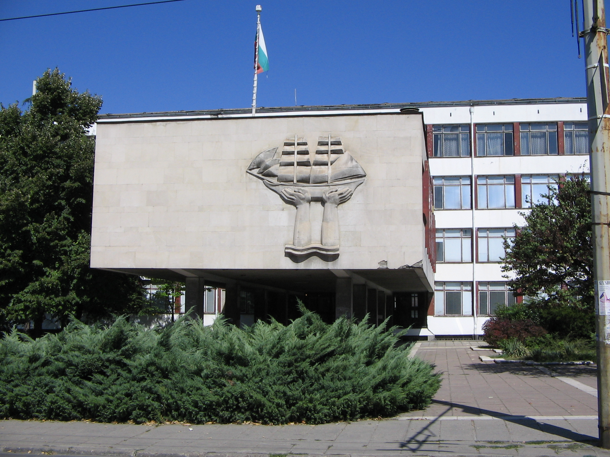 The shipbuilding technical school in Rousse, Bulgaria